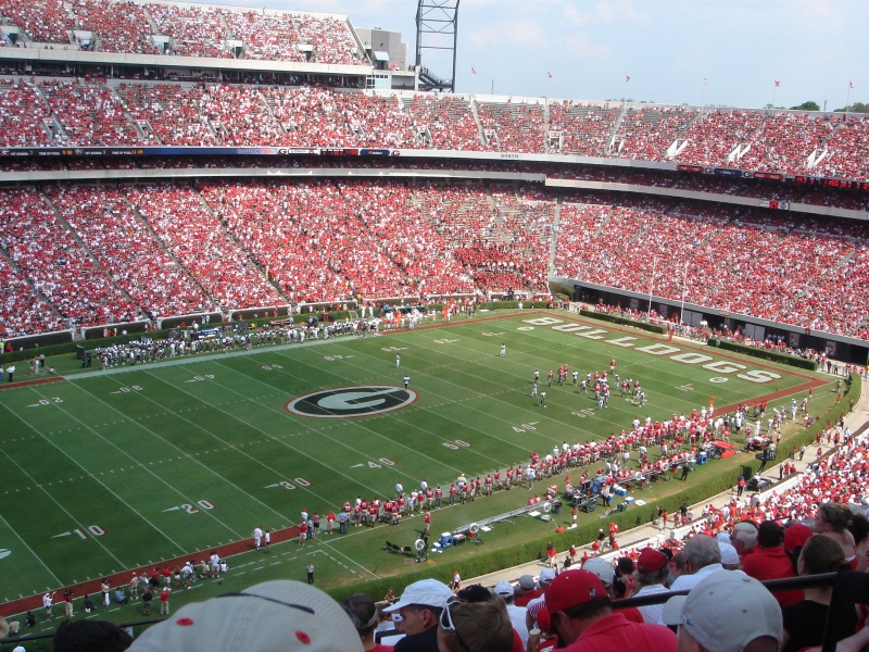 This image shows Sanford Stadium at the University of Georgia in Athens, Georgia. This photograph was taken by User:pruddle (the uploader) in September 2005. \ Category:University of Georgia campus